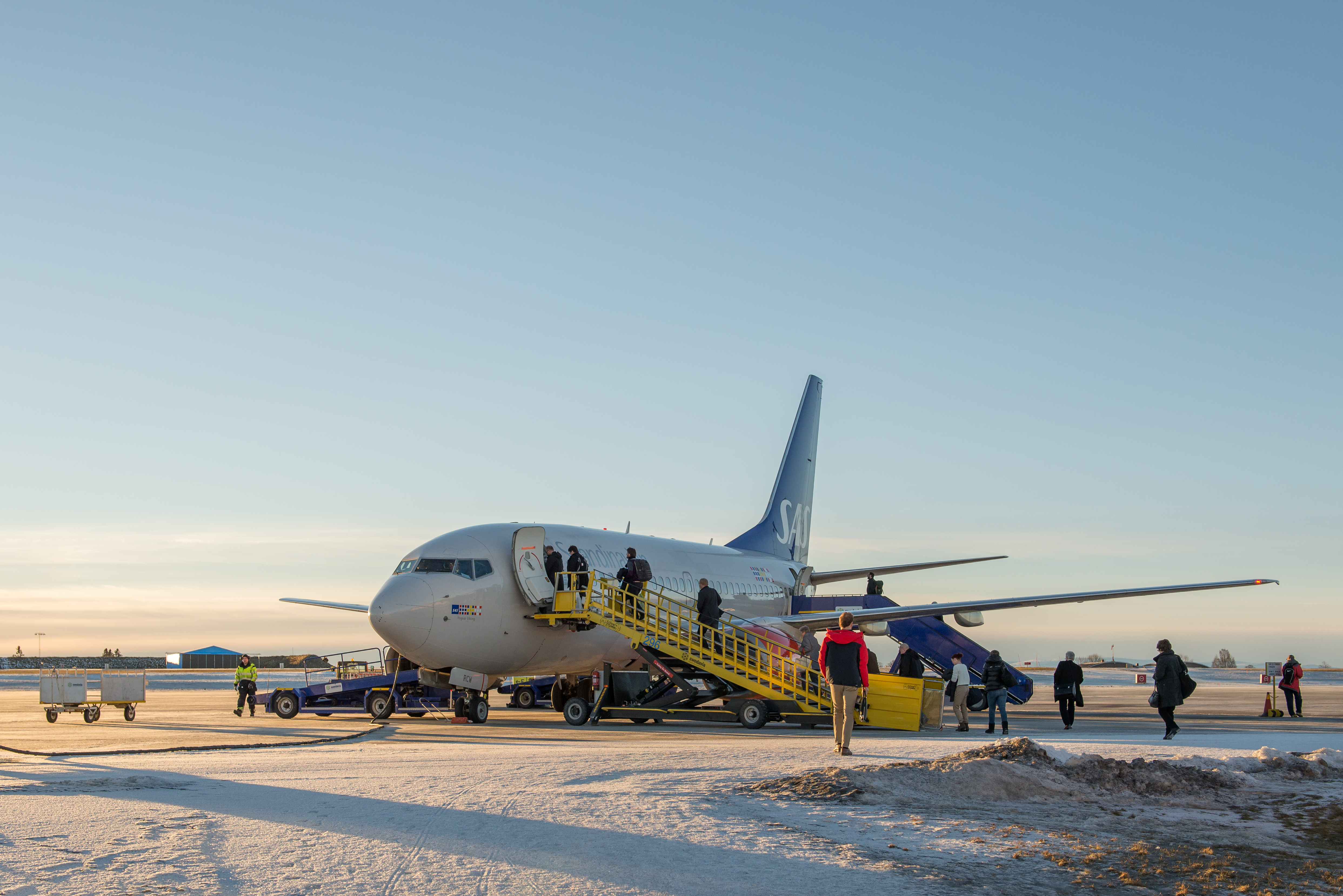 Scandinavian Airlines Boeing 737-683 "Yngvar Viking" at Åre Östersund Airport. Registration: LN-RCW MSN: 28308.